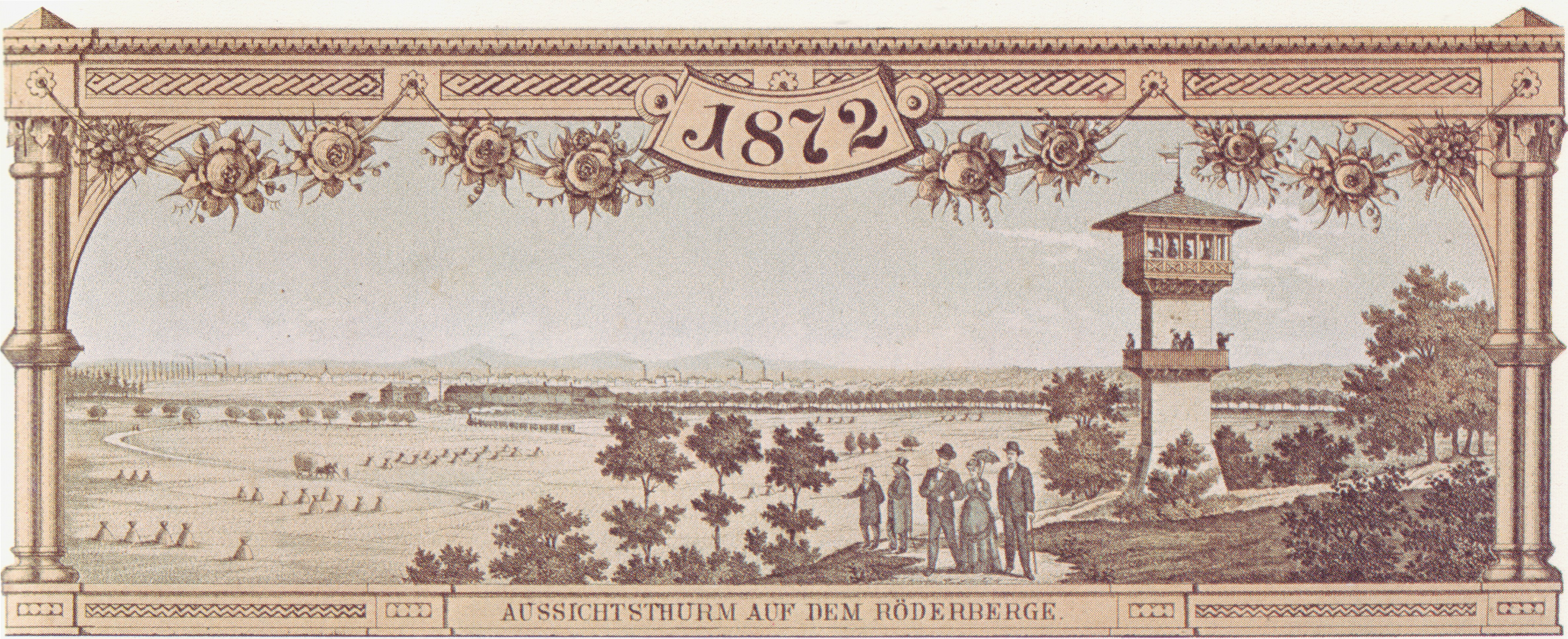 First wooden Roederberg tower, built 1871, at the end of the Roederbergweg in Frankfurt-Ostend, near the frontier to Bornheim with a view over the fields of the Riederhoefes, where nowadays the Ostpark is located, to Offenbach